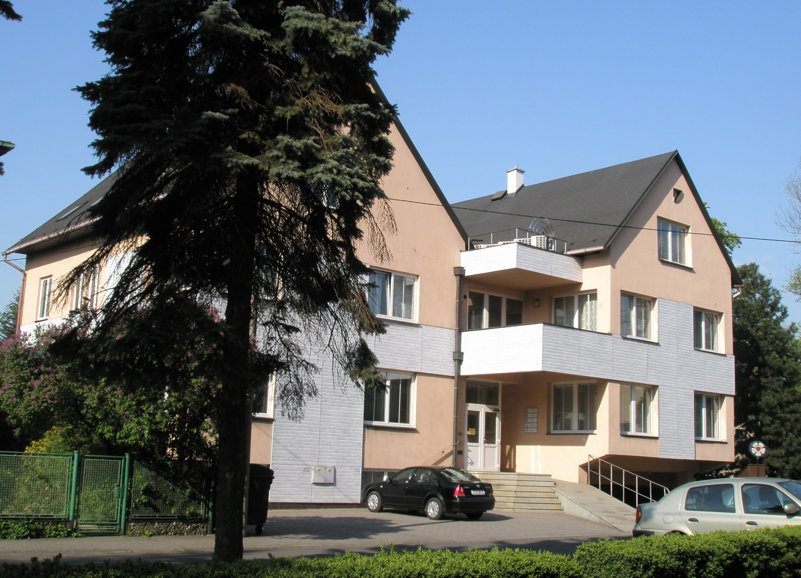 Headquarters of the Silesian Evangelical Church of Augsbourg Confession in Český Těšín